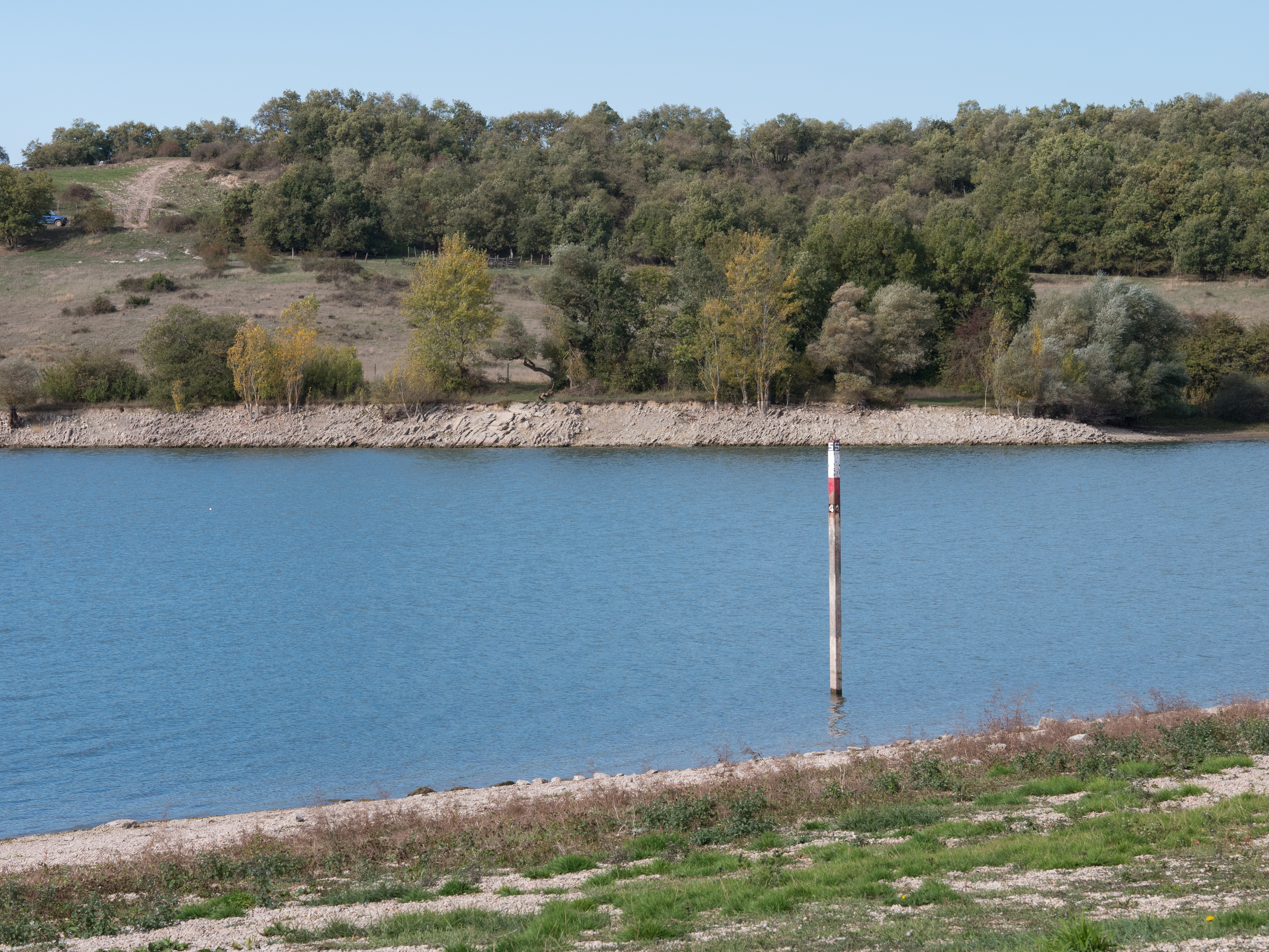 Water level marker in Garaio, Ullíbarri-Gamboa reservoir. Álava, Basque Country, Spain